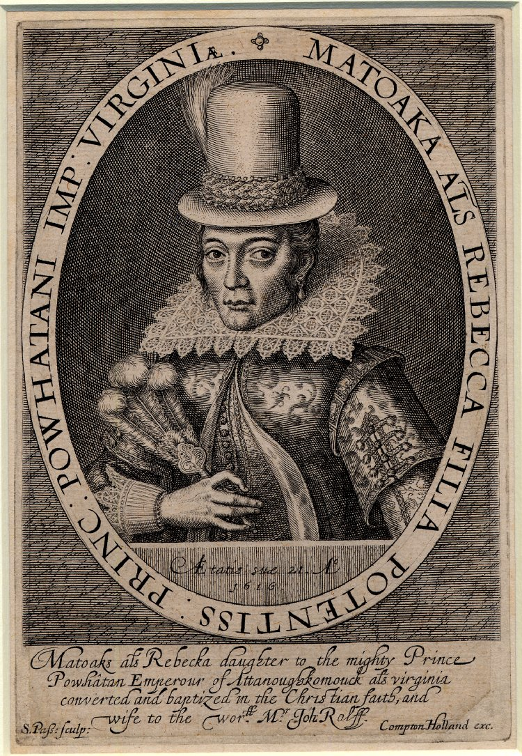 Portrait of Pocahontas, wearing a tall hat, and seen at half-length. Around the oval lettering reads: "MATOAKA AĽS REBECCA FILIA POTENTISS: PRINC: POWHATANI IMP: VIRGINIÆ". Below oval "Ætatis suæ 21. Ao / 1616." Below: "Matoaks aľs (alias) Rebecka daughter to the mighty Prince / Powhâtan Emperour of Attanoughkomouck aľs (alias) virginia / converted and baptized in the Christian faith, and / wife to the wor[shipfu]ll Mr. Joh. Ralff." Engraving by the Dutch and British printmaker and sculptor Simon van de Passe. Courtesy of the British Museum, London.